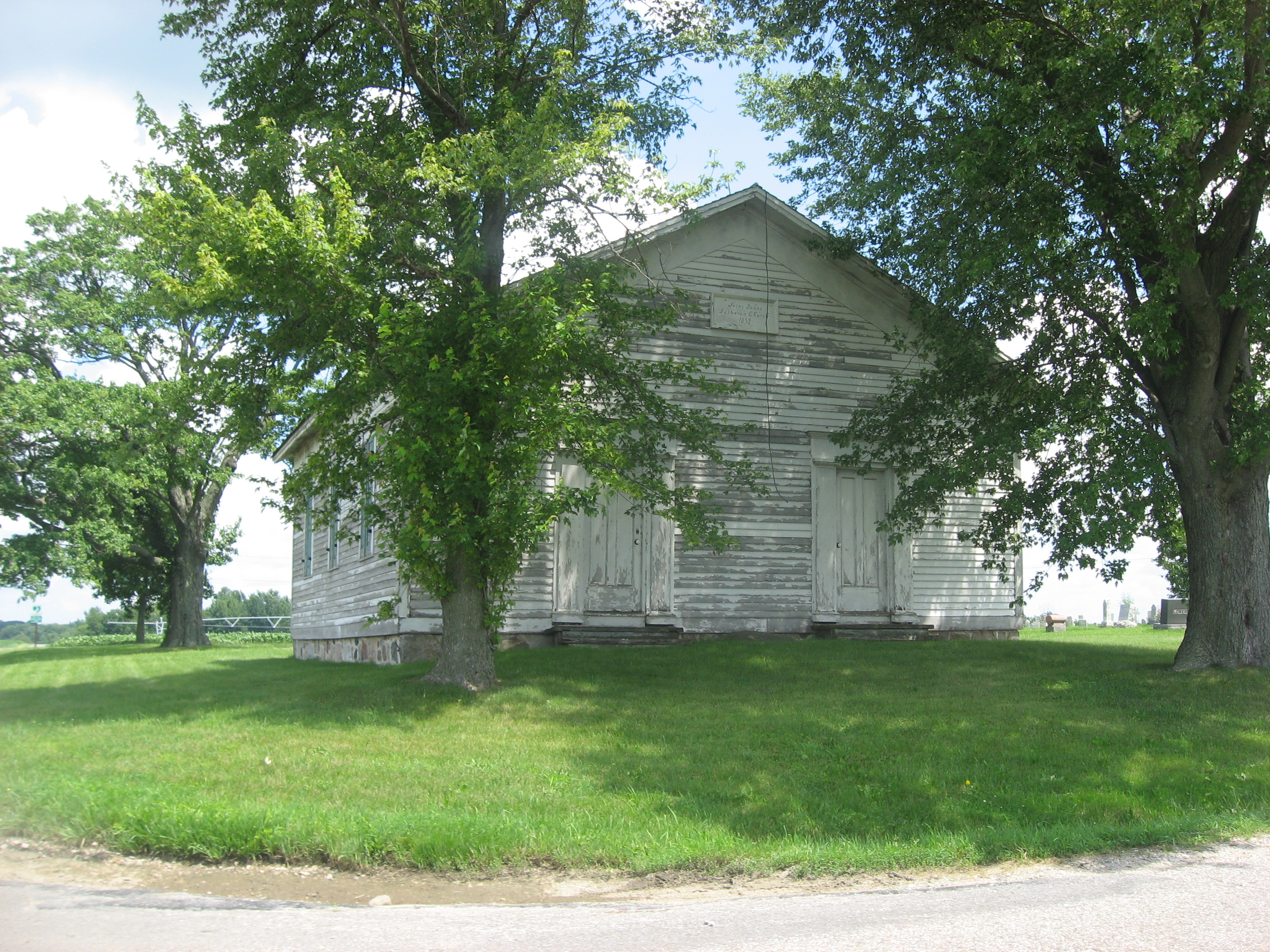 Front and western side of St. John's Lutheran Church, located on the northeastern corner of County Roads 15 and 32 west of Goshen in Harrison Township, Elkhart County, Indiana, United States. Built in 1853, it is listed on the National Register of Historic Places.